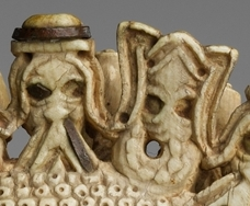 Bone/Ivory-Sculpture